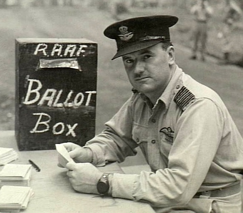 Goodenough Island, Papua. c. 1943-08. Portrait of the Officer Commanding No. 73 Wing RAAF, Group Captain Ian Mclachlan DFC, holding senior staff post on jungle front, beside the ballot box with the first service vote for the Victorian electorate of Balaclava in the Australian federal election.